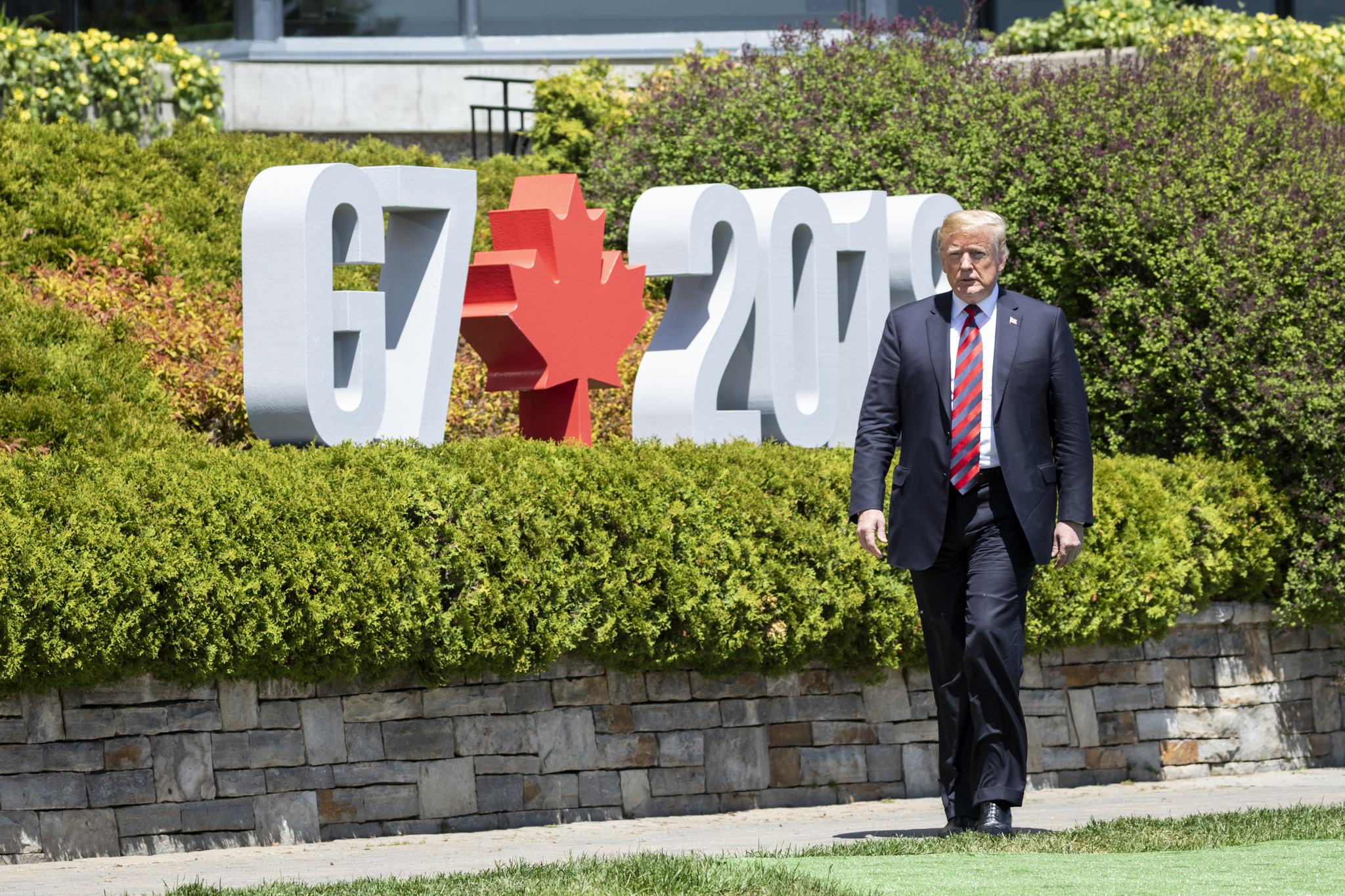 President Donald J. Trump arrives at the G-7 Official Welcome, Friday, June 8, 2018, and is greeted by Canadian Prime Minister Justin Trudeau and his wife Mrs. Sophie Gregoire Trudeau, at the Fairmont Le Manoir Richelieu, in Charlevoix, Canada. (Official White House Photo by Shealah Craighead)